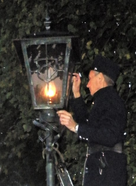 Brest, Belarus Sovietskaya Street” (Brest’s Mall) - a lamplighter has been employed since 2009 to light up the oil lamps in the street every day (October 15, 2011)